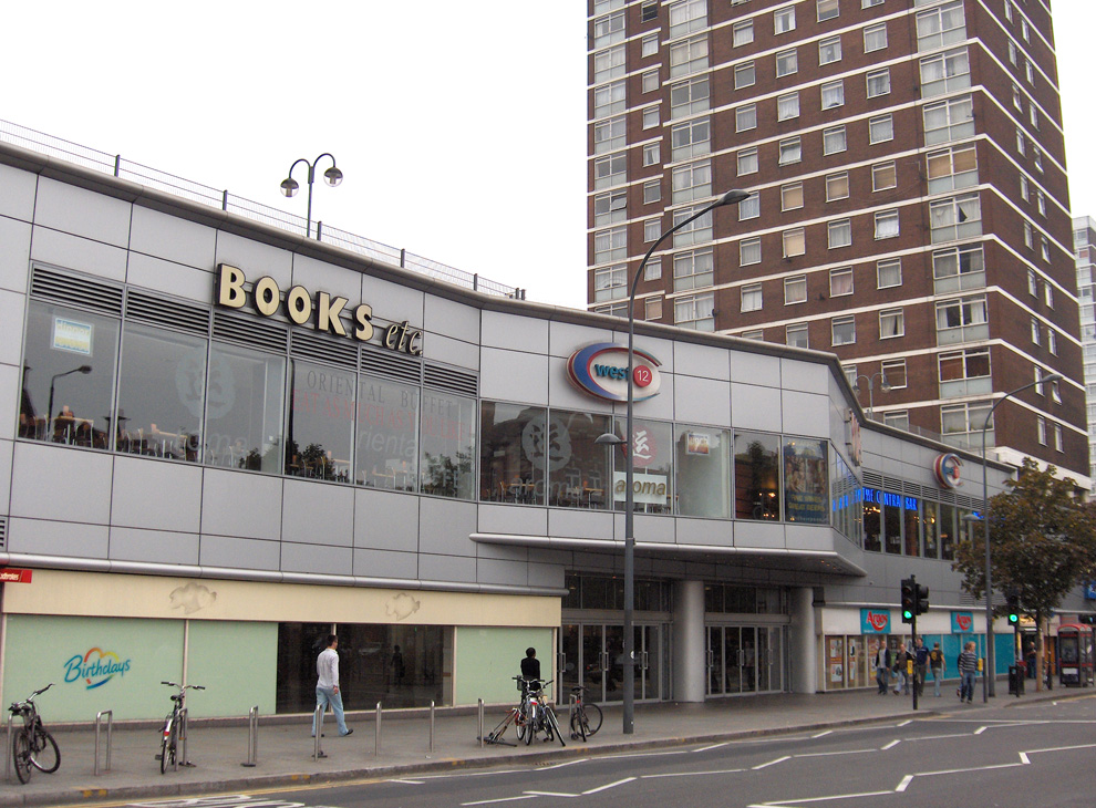 Shepherd's Bush, West12 Shopping Centre. North side, early morning. (September 2006)